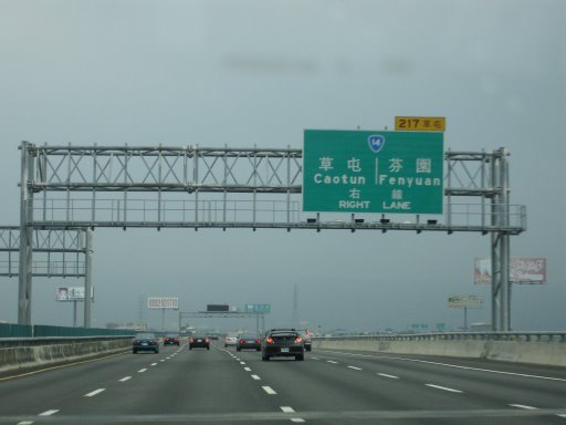 A view is the Highway No.3 at Caotun section in Nantou County,near Fenyuan.